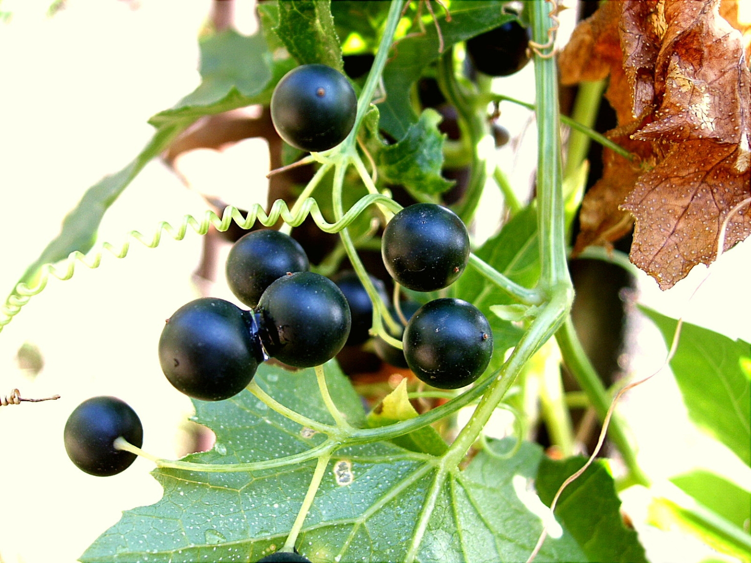 White bryony Bryonia alba fruit: small black berries with leaves. Czech Republic.